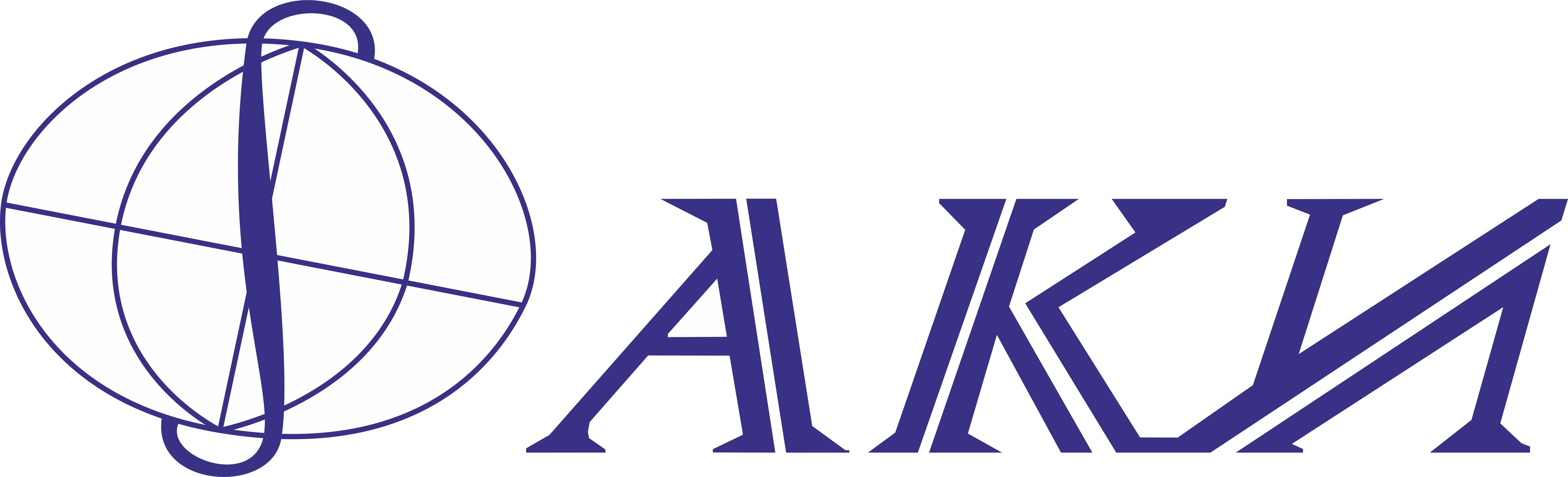 Official logotype of DASR department of Moscow Institute of Physics and Technology (MIPT).